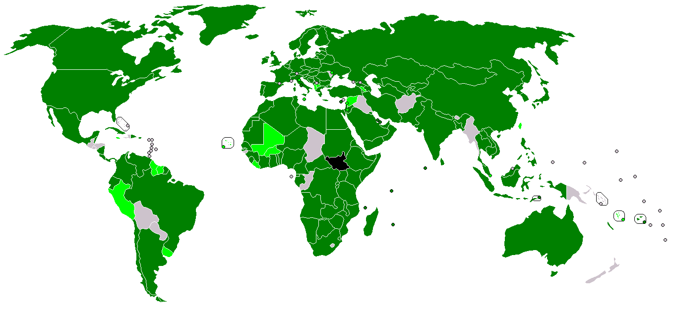 South Sudan foreign relations and recognitions dark green - diplomatic relations established; light green - diplomatic recognition only